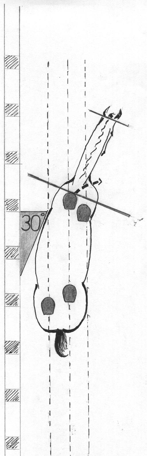 Shoulder-in: The shoulder is brought into the arena by 30 degrees from the rail with the body bent and the neck straight (watch the two parallel lines through the pole and the shoulder). It is a three-track movement with the outer foreleg stepping in front of the inner hindleg and crossing around the inner foreleg.